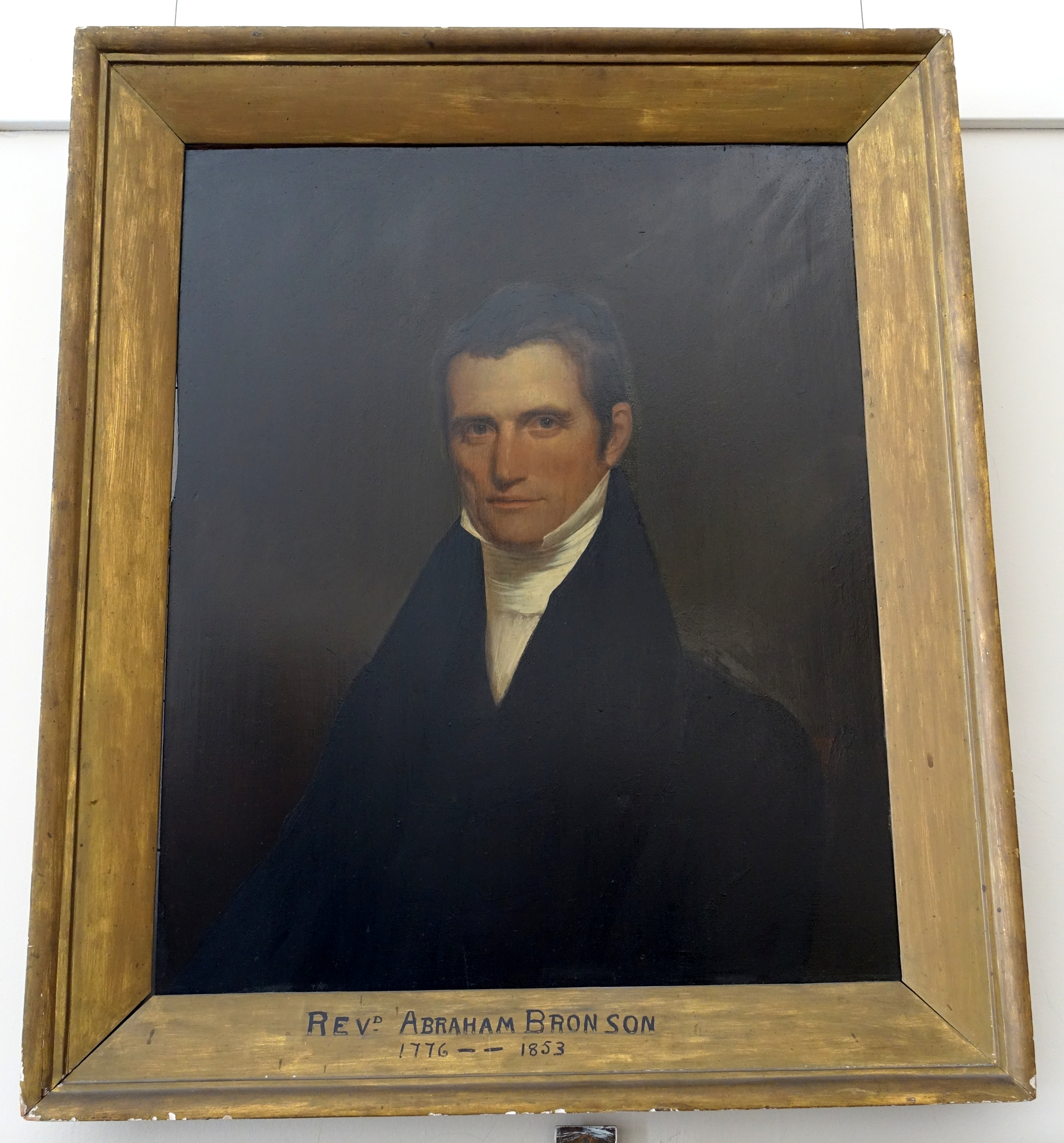 Exhibit in the Bennington Museum - Bennington, Vermont, USA. This work is in the public domain because the artist died more than 70 years ago.